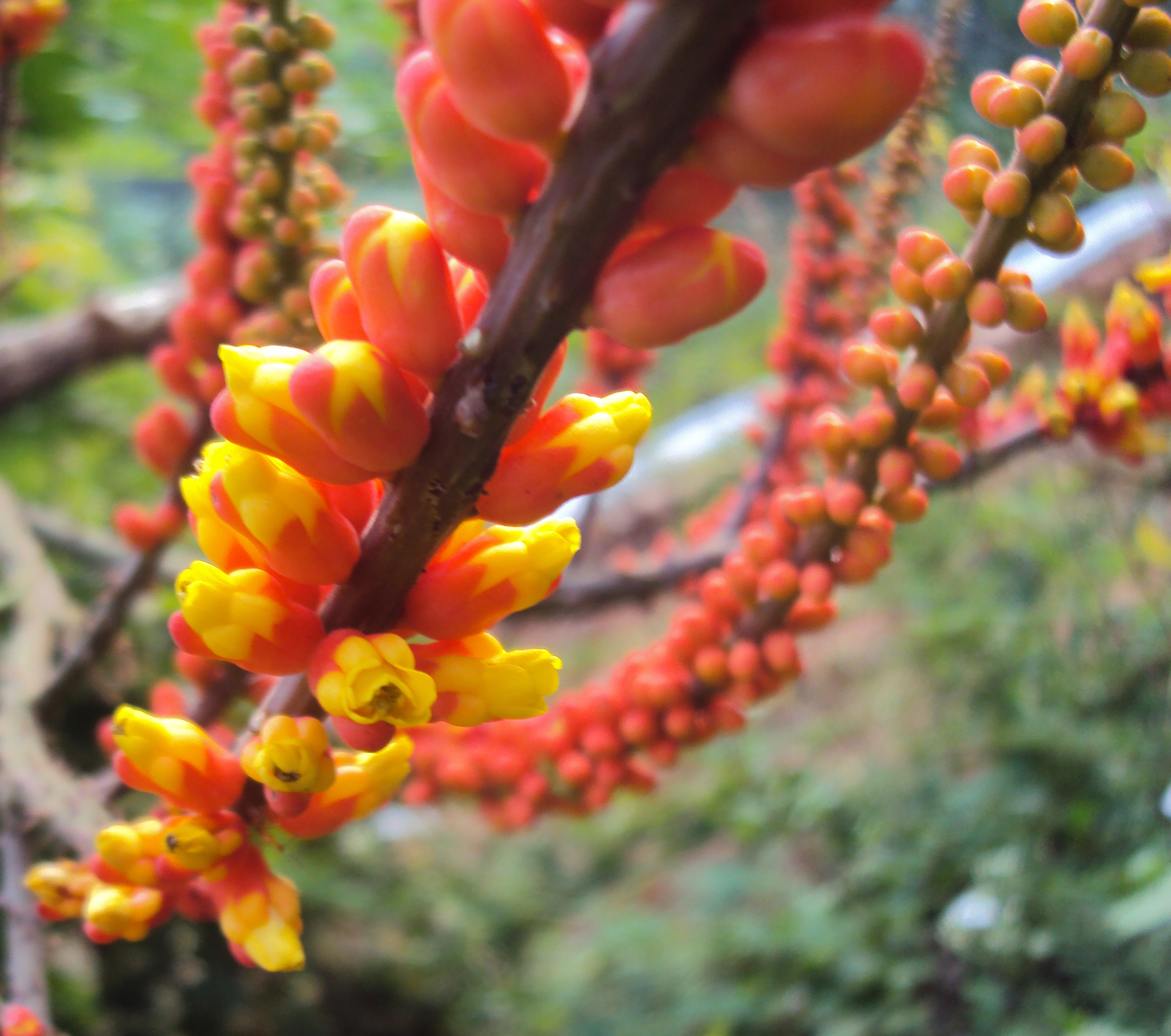 Moullava spicata